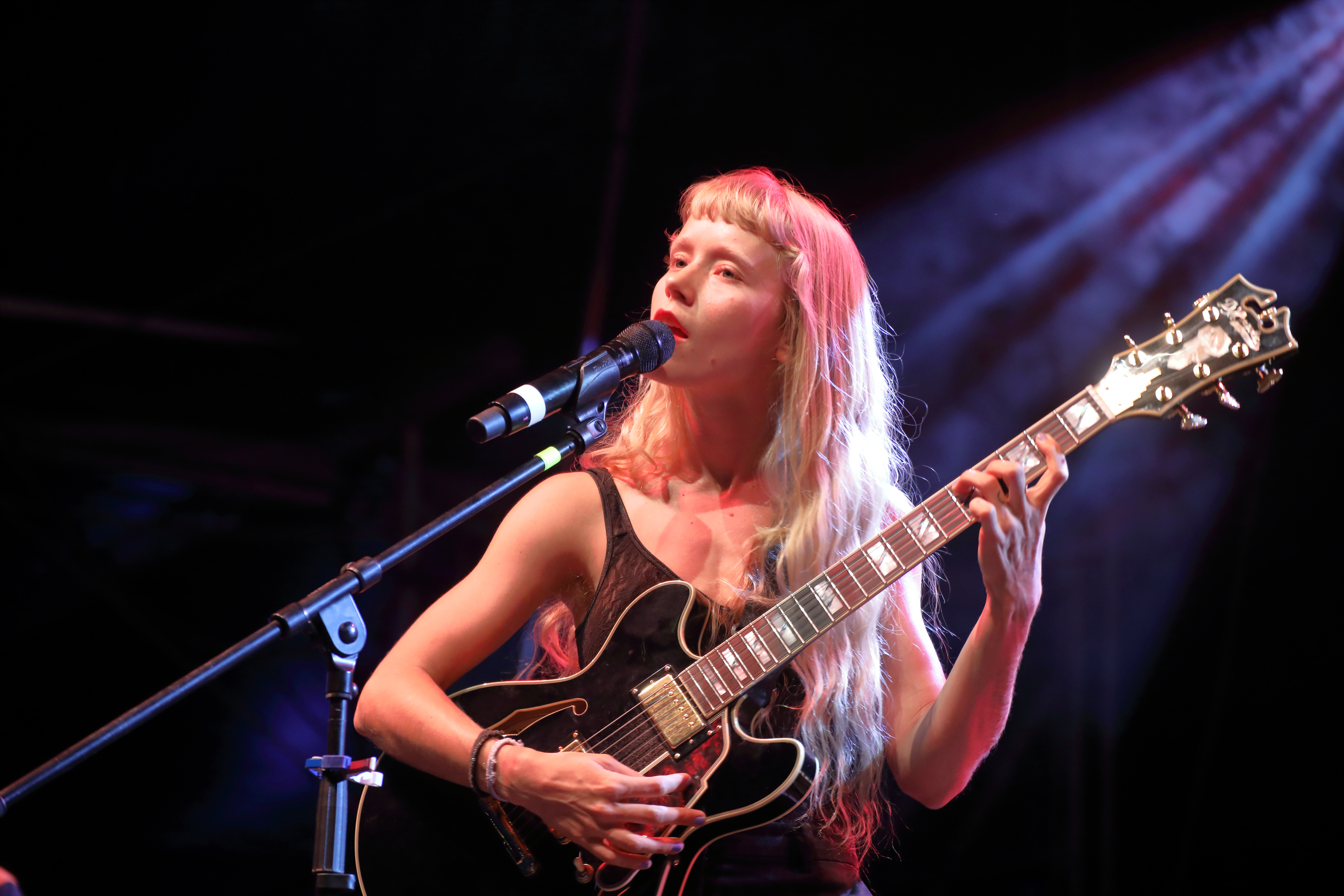 Singer-songwriter Alice Phoebe Lou from South Africa and her band at Rudolstadt-Festival 2019.